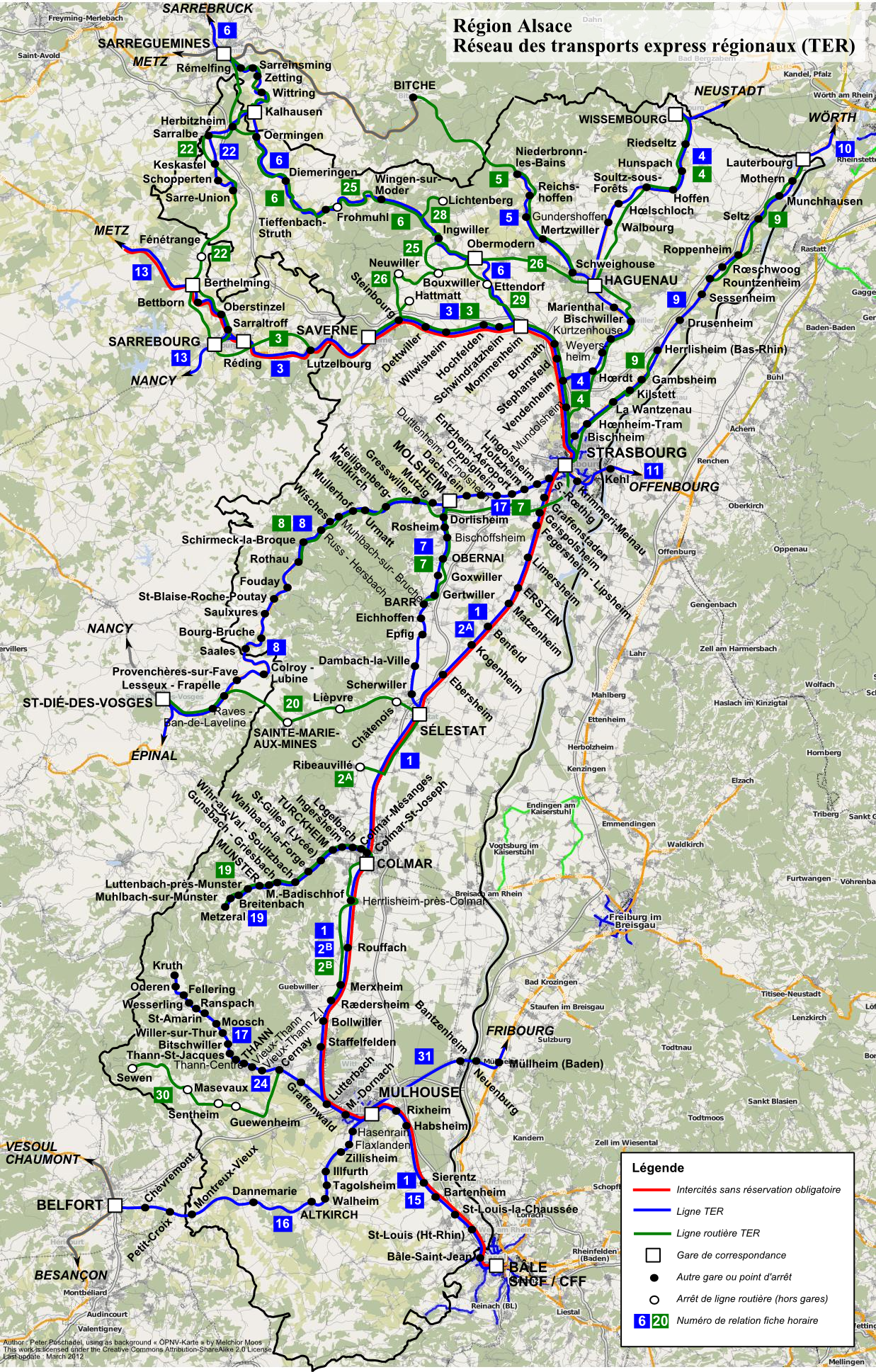 Region Alsace, regional transport network (TER)